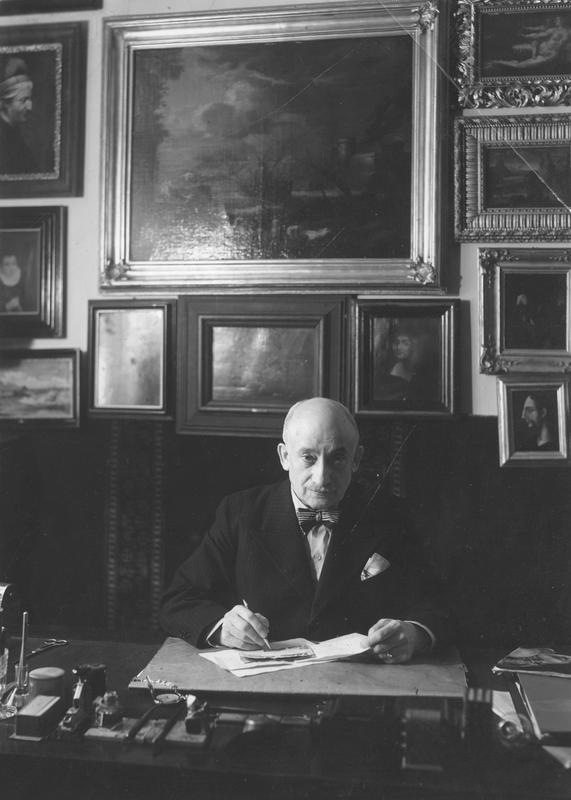 Rafael Scherman